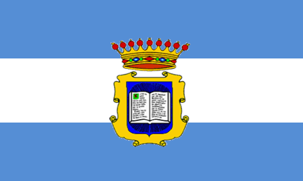 Flag of Sevilla La Nueva, a spanish city.